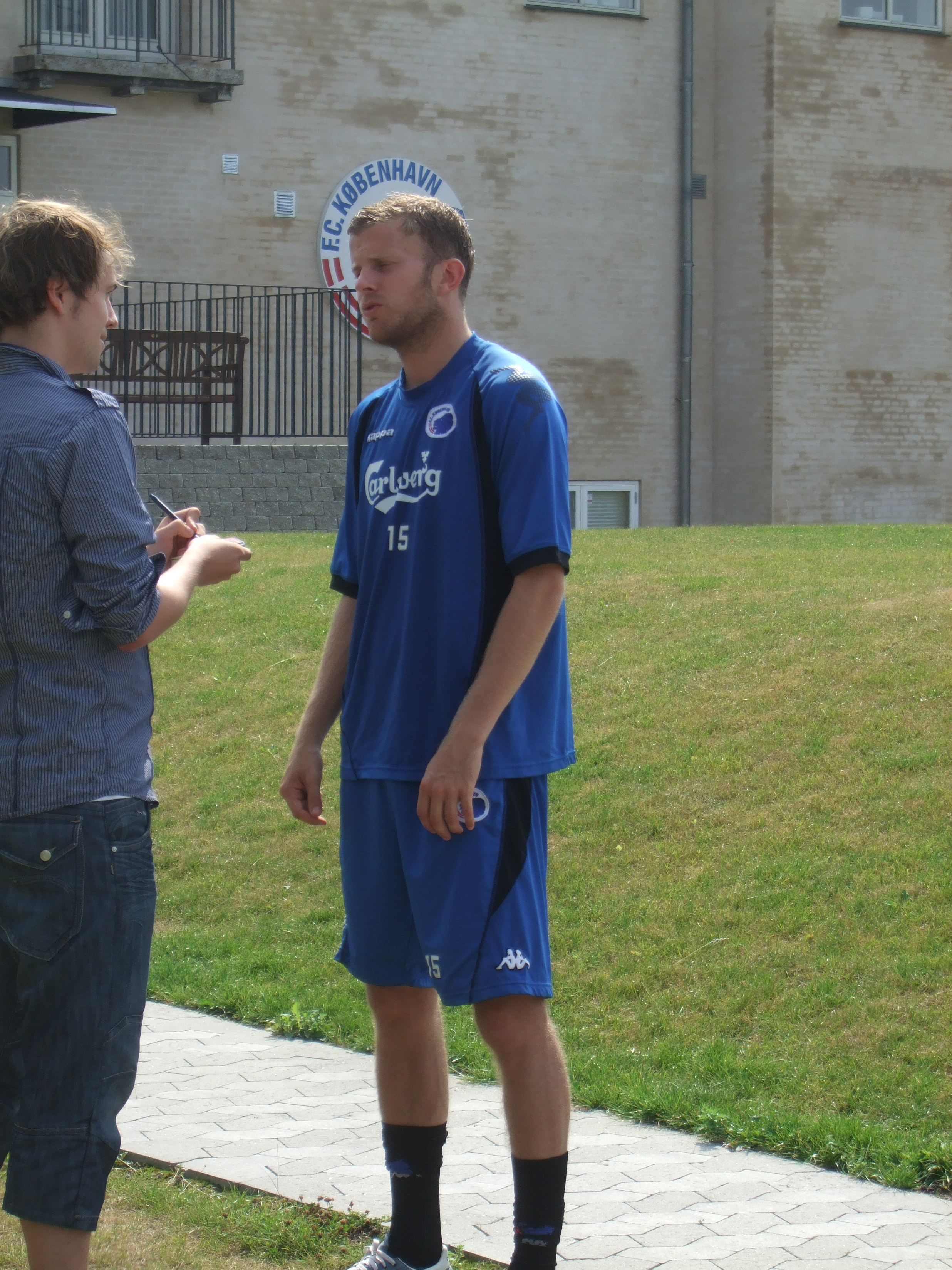 F.C. København defender Mikael Antonsson signing autographs after practice August 7th 2008. Picture is taken at the FCK training grounds at Peter Bangs Vej.